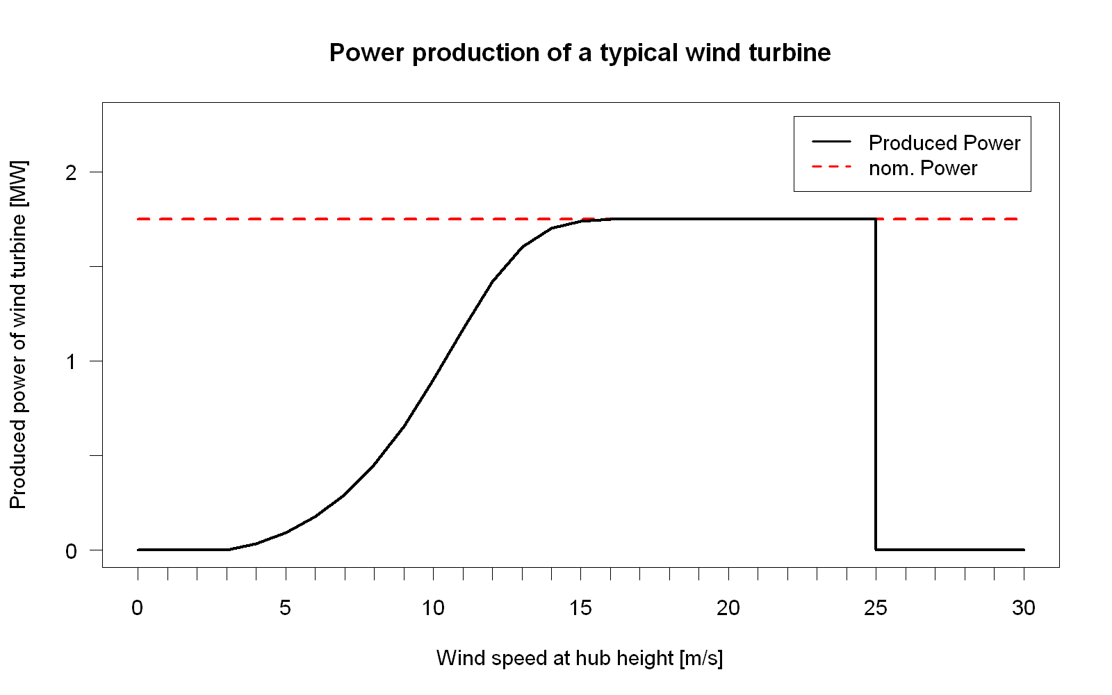 typical power curve of a wind turbine with cut-in (low wind speed), area of rated power (flat curve, at rated wind speed and above) and cut-out point (very high wind speed)